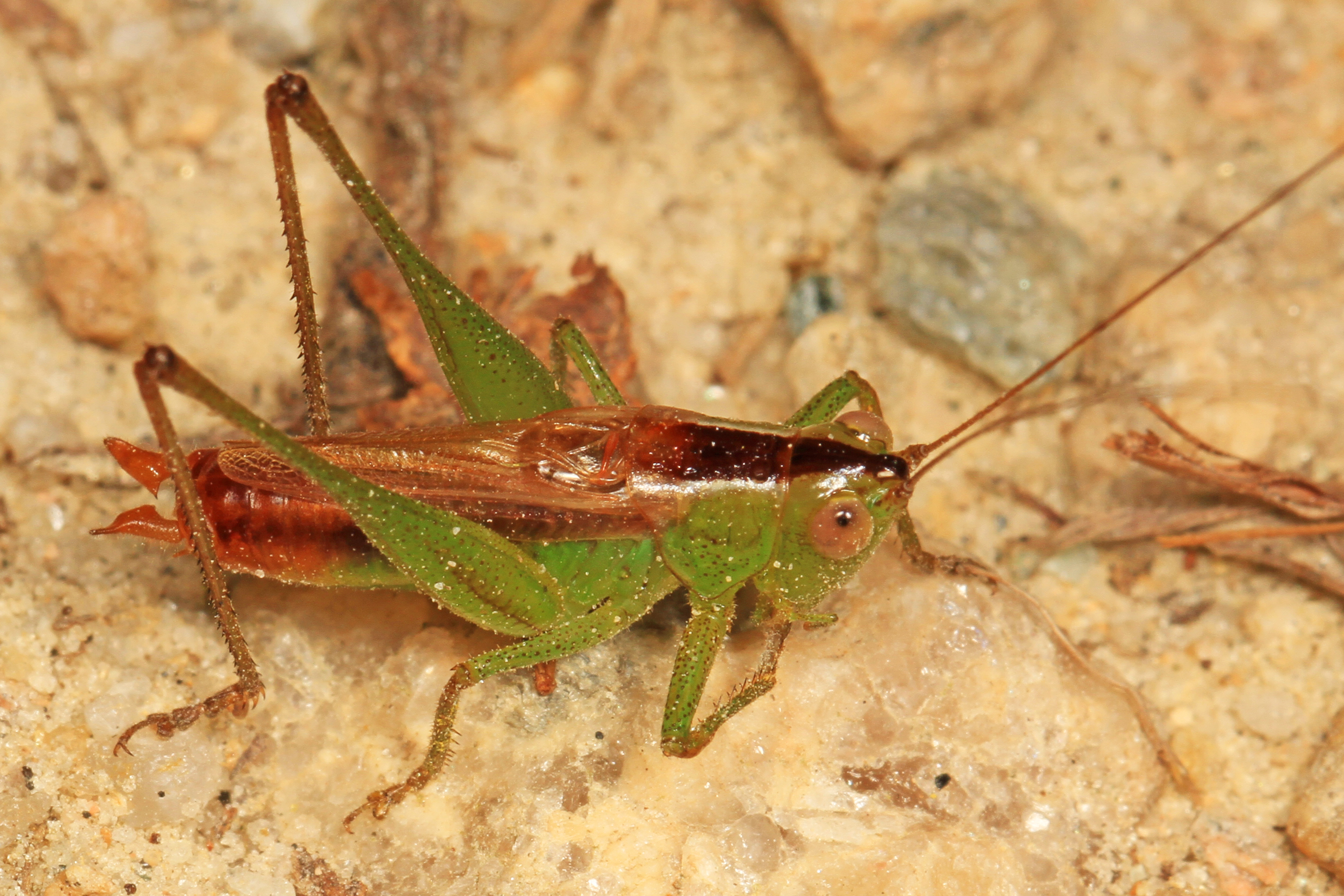 Short-winged Meadow Katydid - Conocephalus brevipennis, Pocahontas State Park, Chesterfield, Virginia.